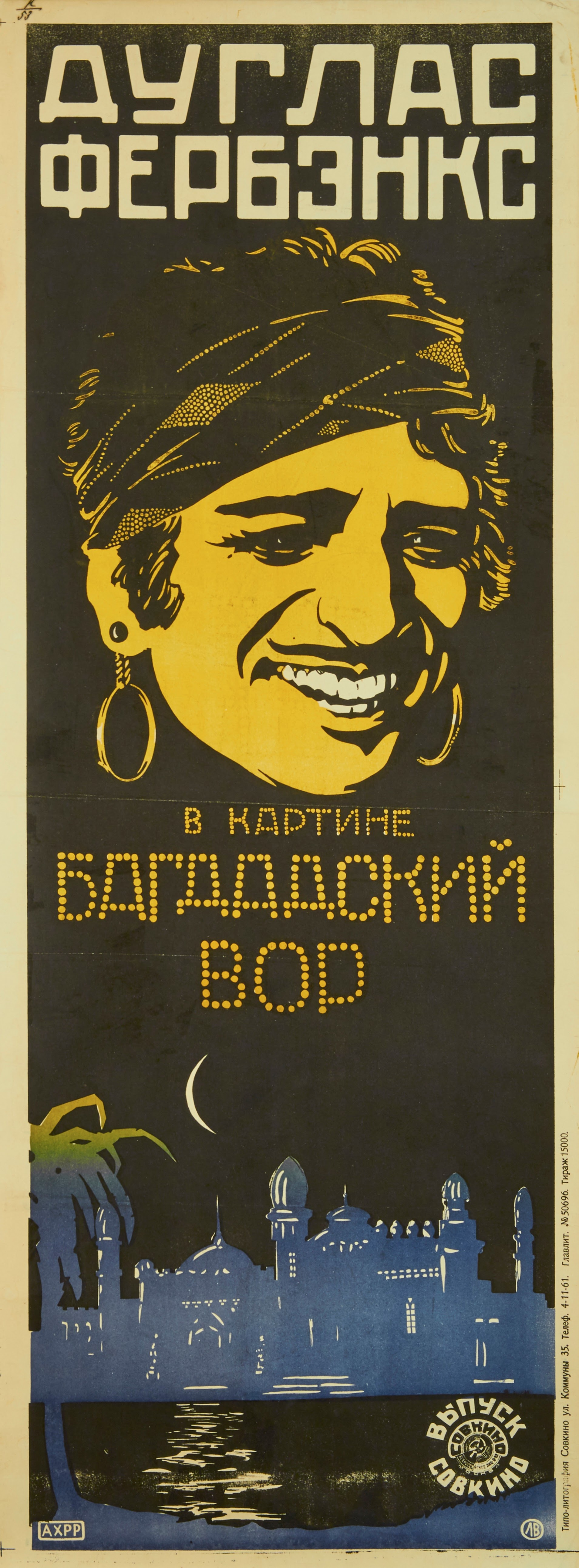 Soviet russian film poster of Thief of Baghdad (1924), an American film starring Douglas Fairbanks. Published for Sovkino, edition of 15 000, 100.5 x 36.2 cm (39 1/2 x 14 1/4 in.)